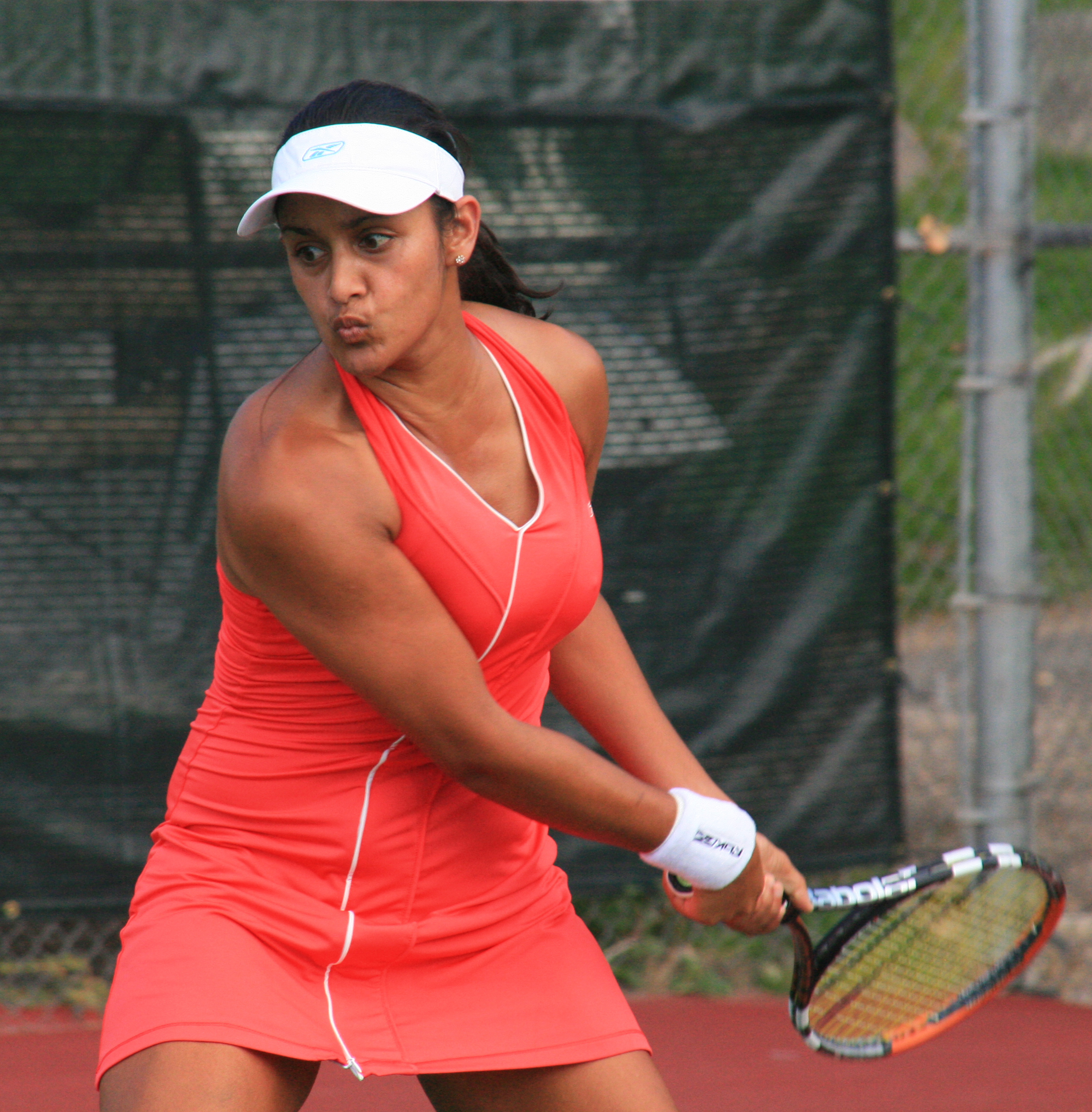 Sunitha Rao at the Coleman Vision Tennis Championship in Albuquerque, New Mexico.